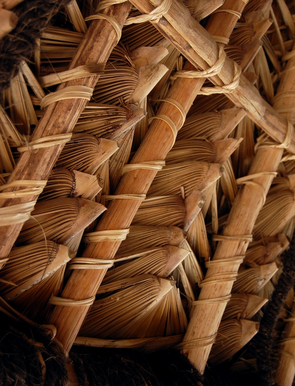 Dried leaves of Corypha utan, used for thatching; Ayotupas, West Timor, Indonesia